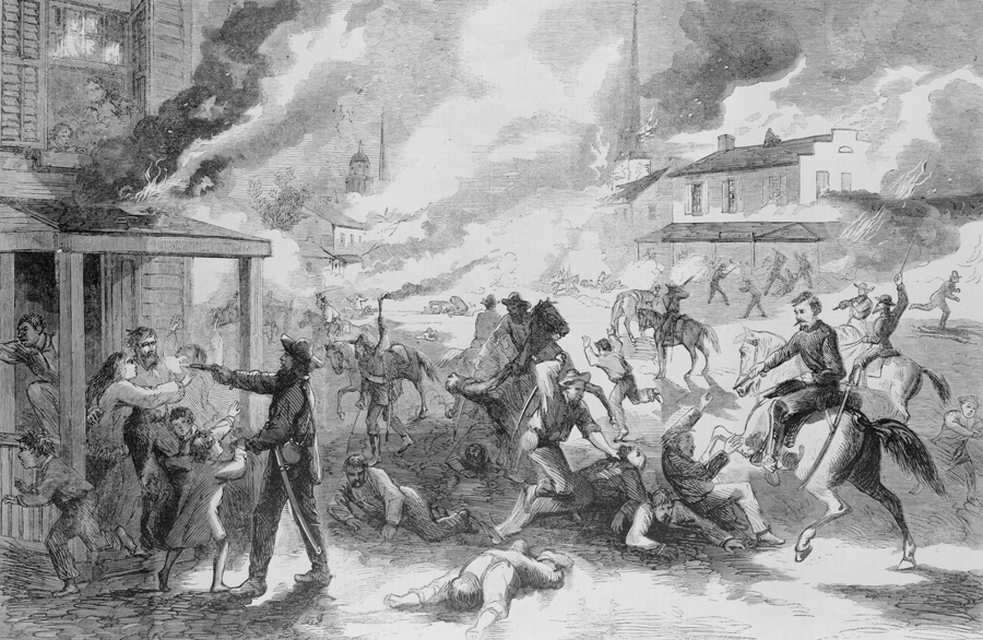 Print shows Rebel troops killing the citizens of Lawrence, Kansas, and setting fire to the buildings.